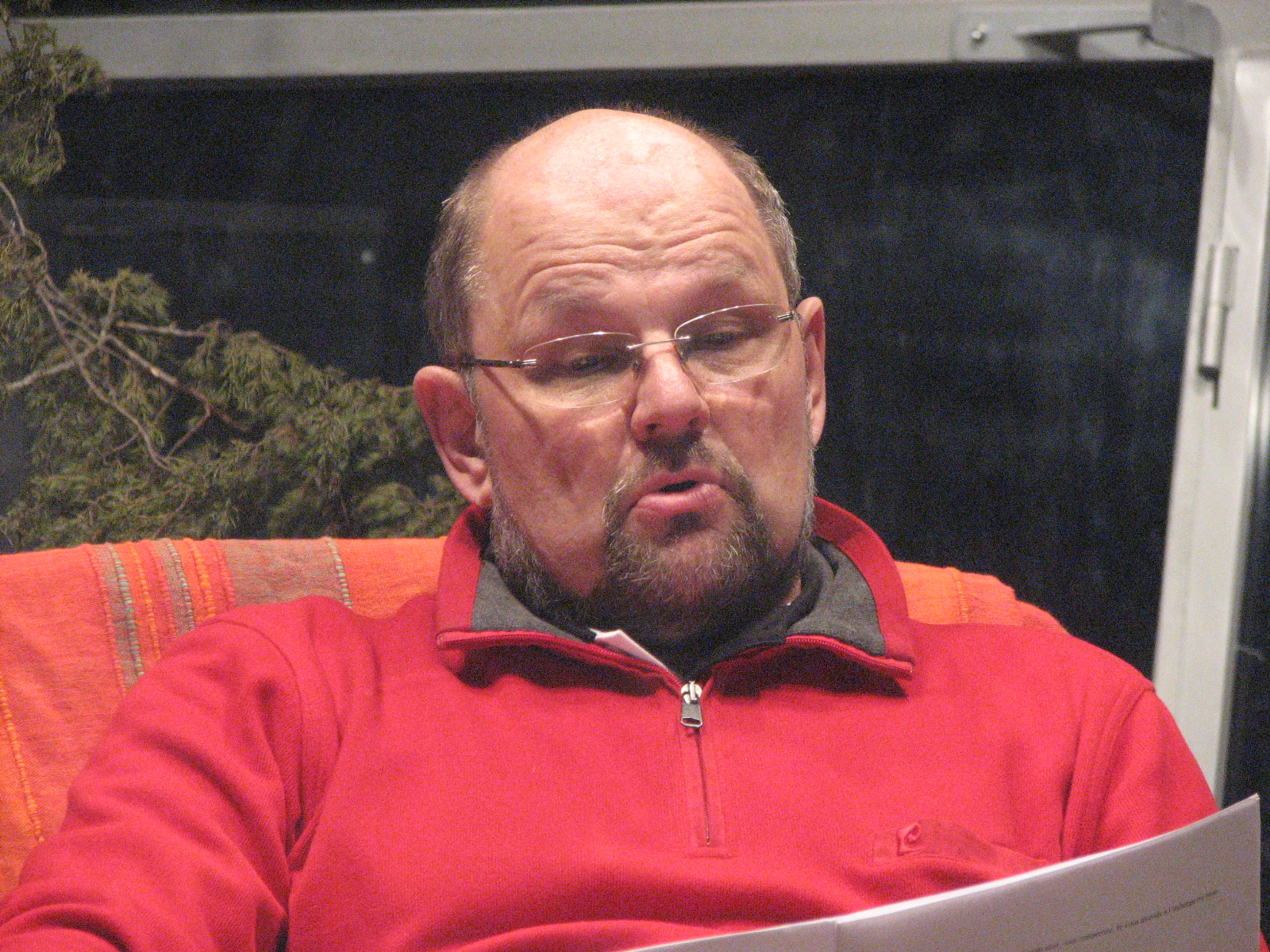 Jassi Zahharov is Estonian opera singer, baritone.